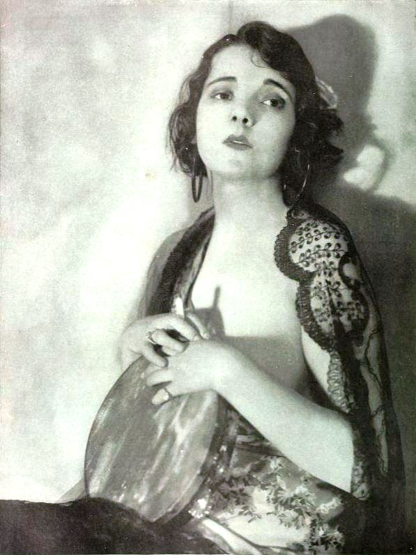 Actress Alma Rubens on page 14 of the December 1919 Shadowland.